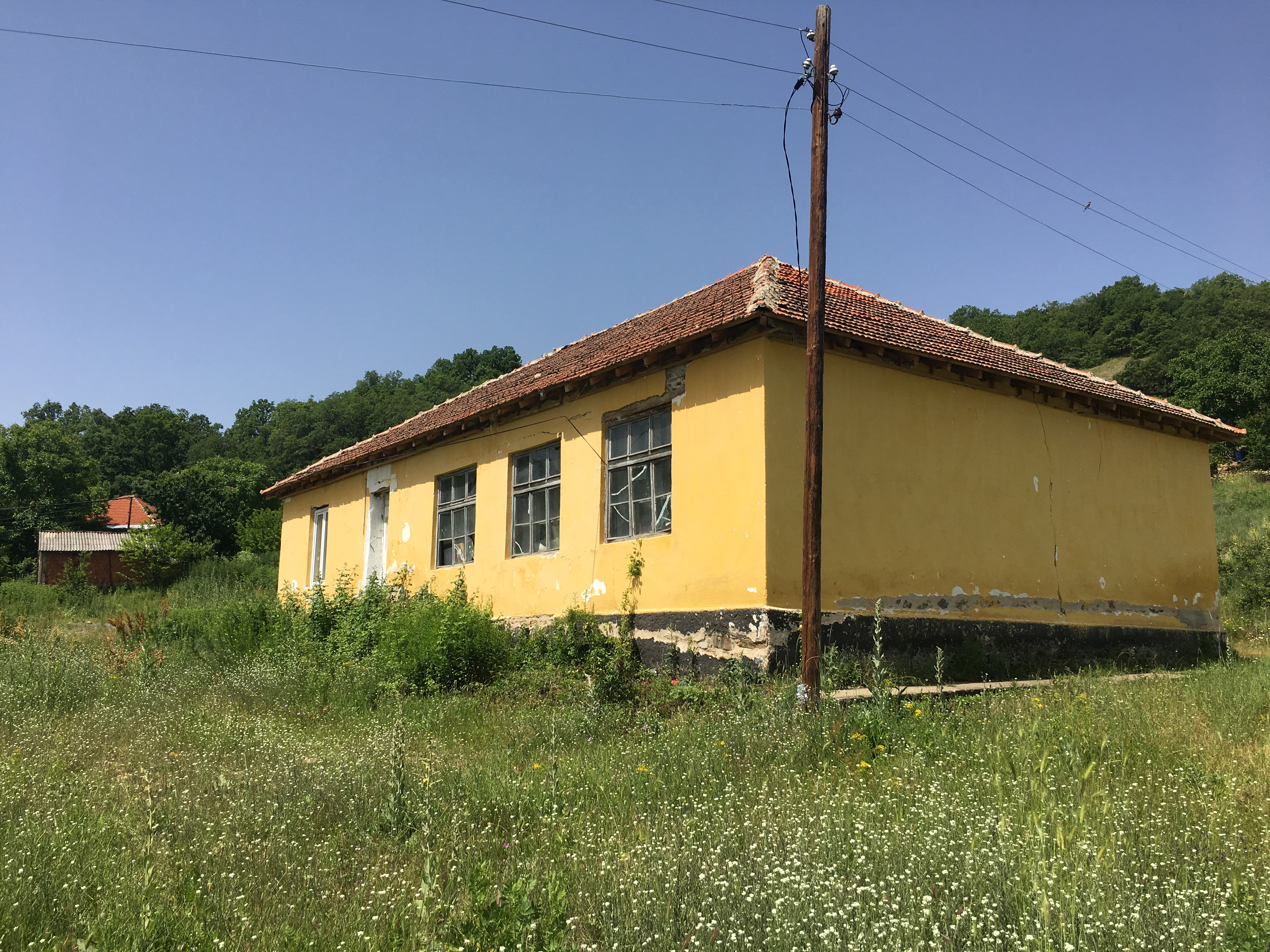 The primary school in the village of Sveto Todori